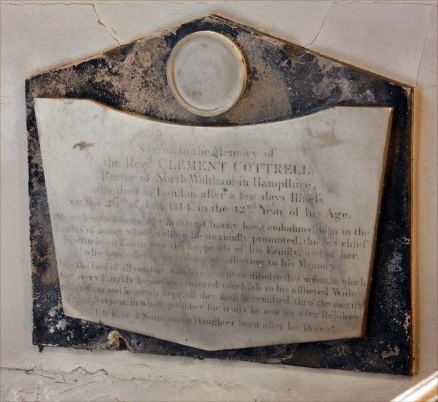 St Mary, Monken Hadley, Herts - Wall monument